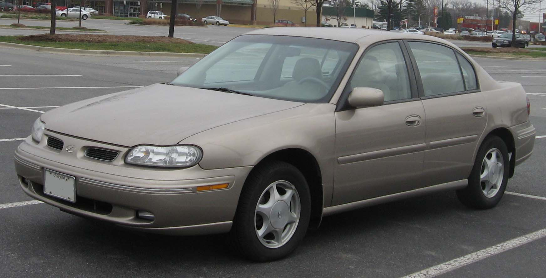 1997-1999 Oldsmobile Cutlass photographed in Clinton, Maryland, USA.